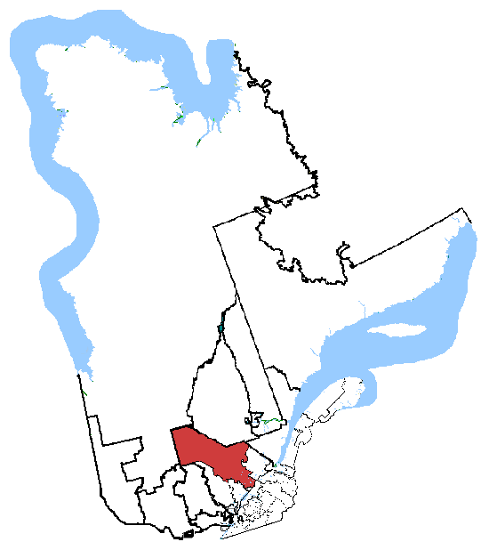 Map of the Saint-Maurice—Champlain electoral district. Based on Earl Andrew's maps, created by SimonP.